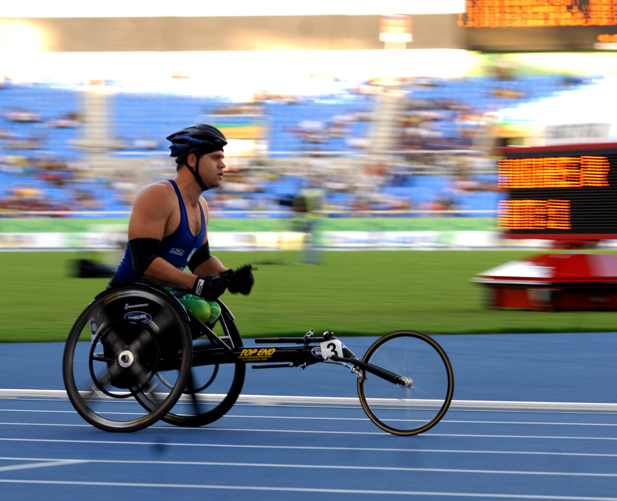 Brazilian athlete Wendel Silva Soares in the 400m wheelchair race at the 2007 Parapan American Games in Rio de Janeiro